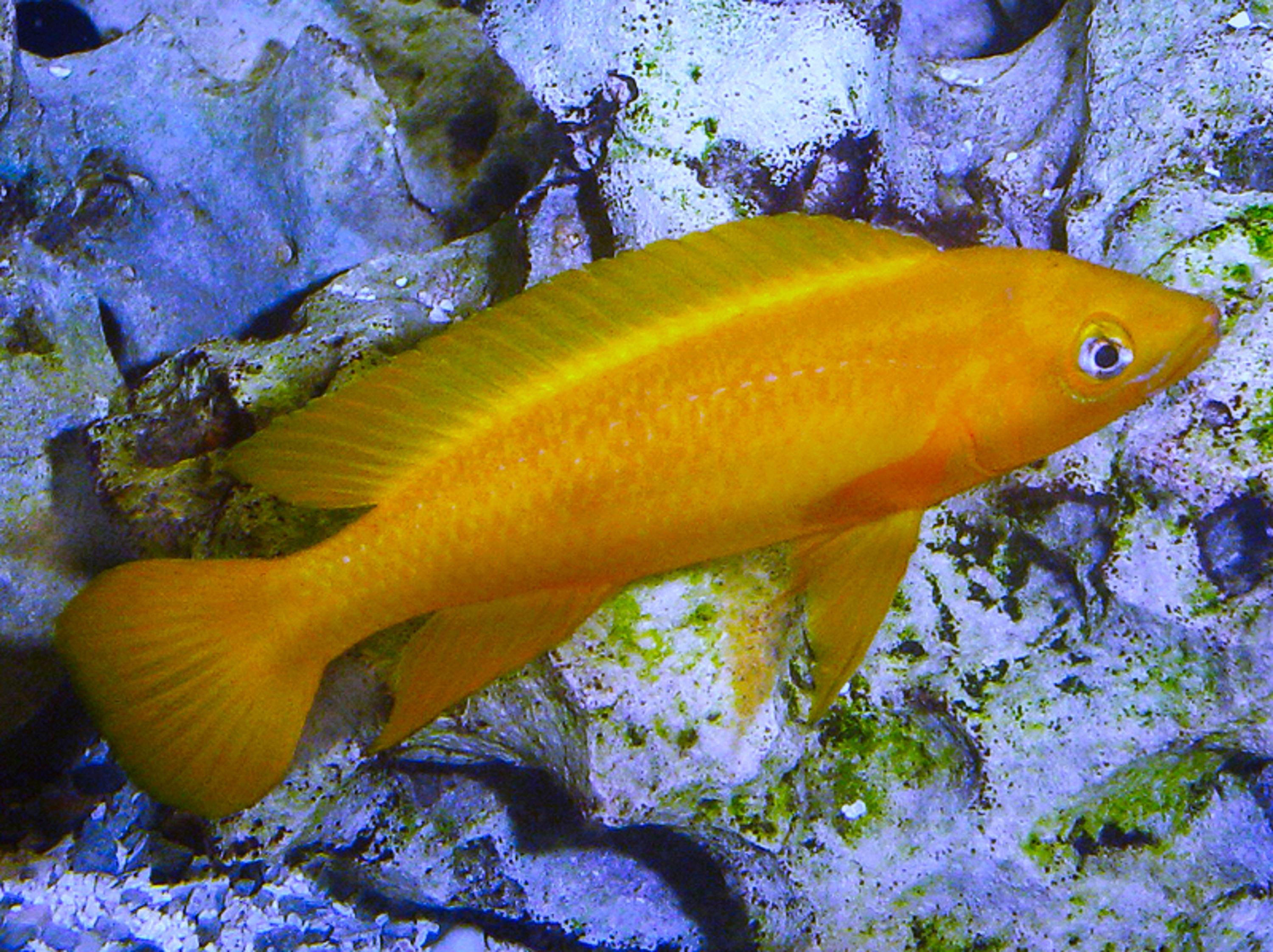 Large adult Neolamprologus leleupi from the collection of H. Blair Howell